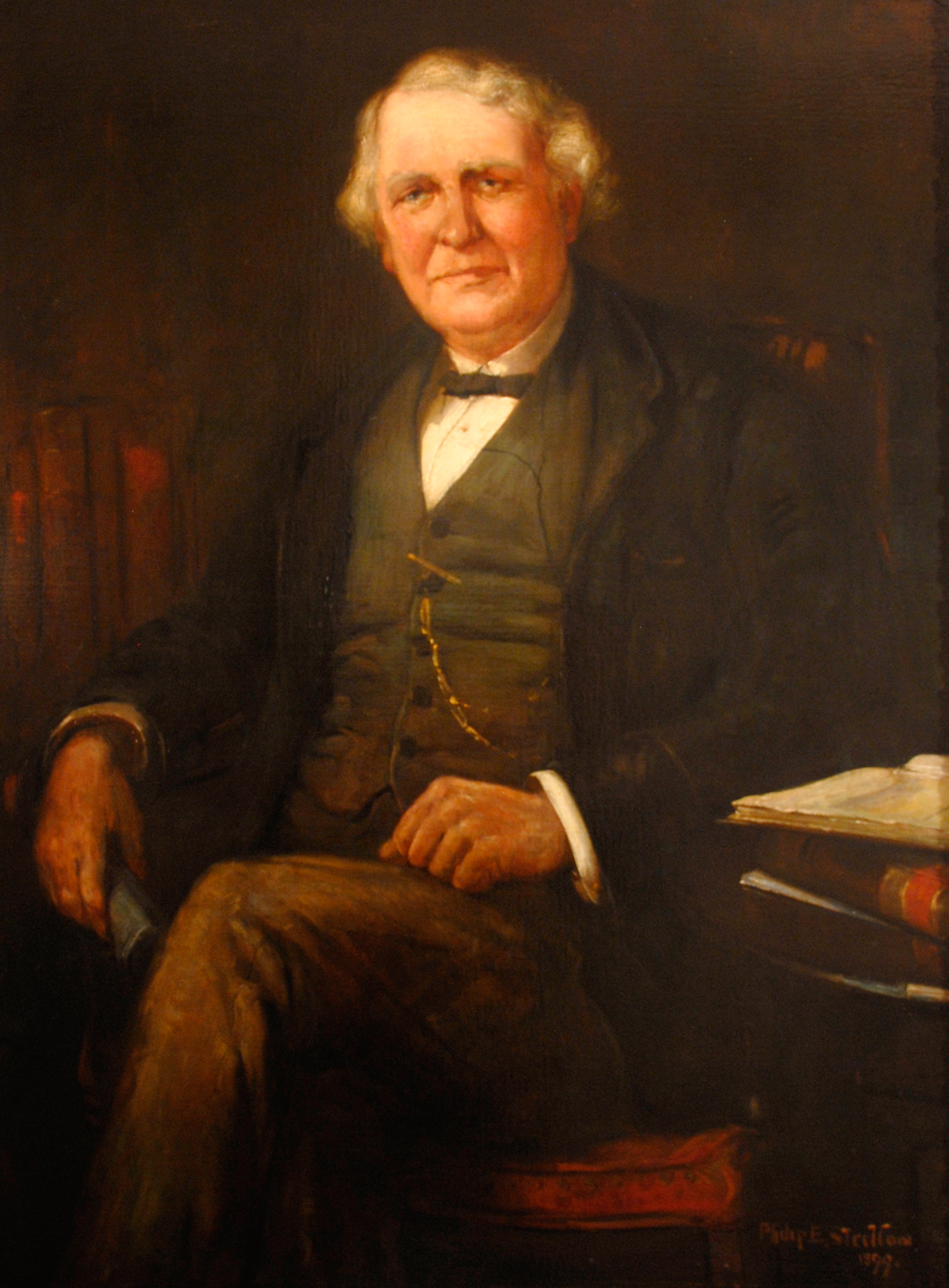 Portrait of Robert Ellis Dudgeon (1820–1904), Scottish homeopathic physician.